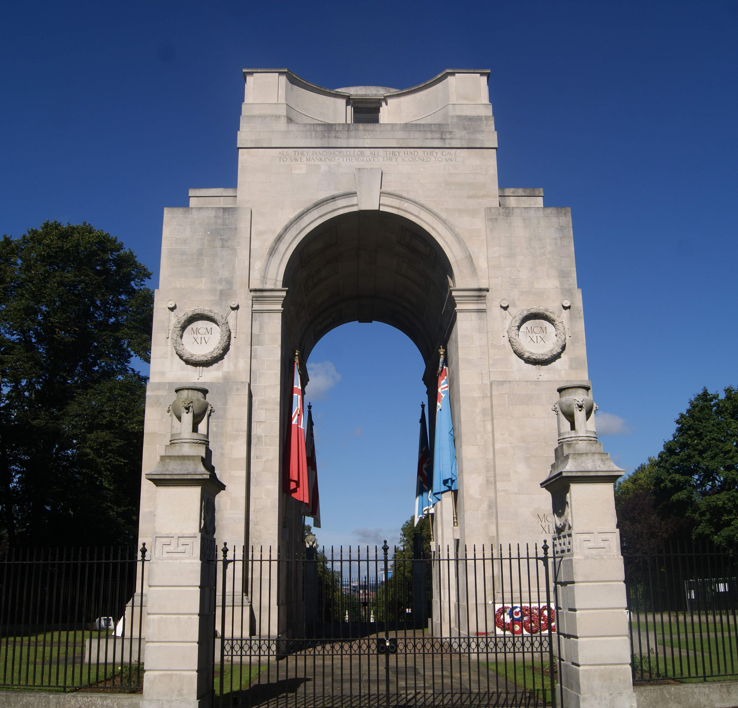 Cropped version of File:Leicester Arch of Remembrance (front, 07).jpg. Frontal view of the Arch of Remembrance, a war memorial in Leicester, England.